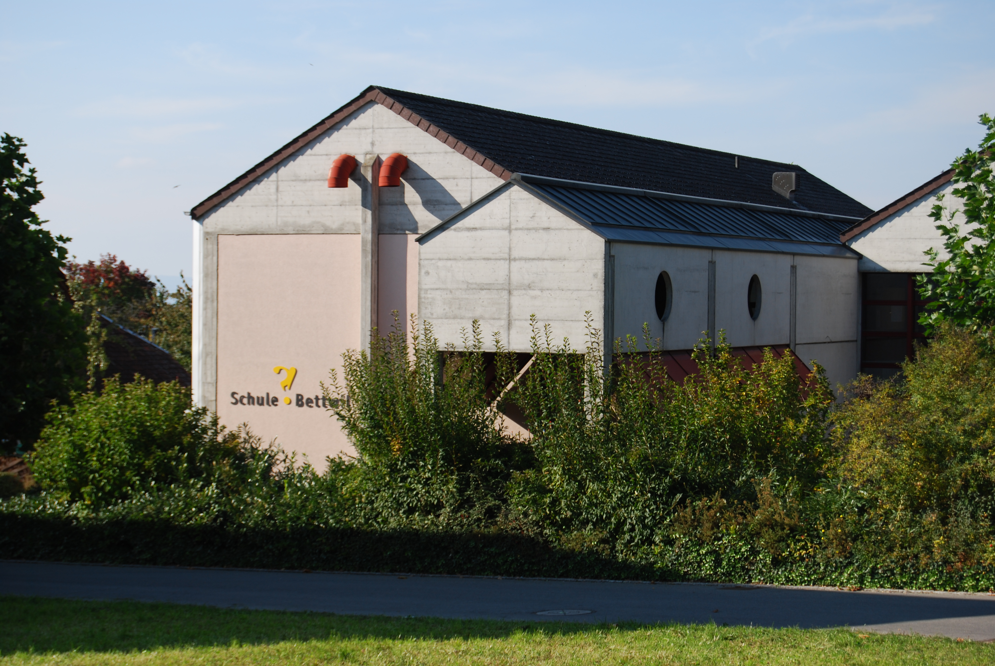 School Bettwil, canton of Aargau, SwitzerlandEsperanto: Lernejo Bettwil, Kantono Argovio, Svislando